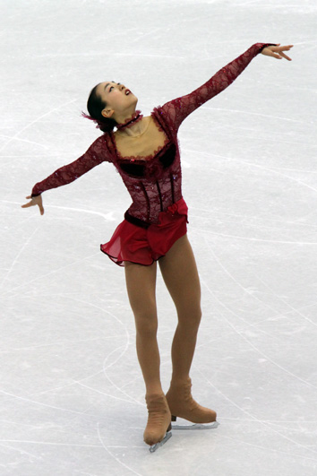 Mao Asada during her short program "Masquerade" at the 2010 Winter Olympics.